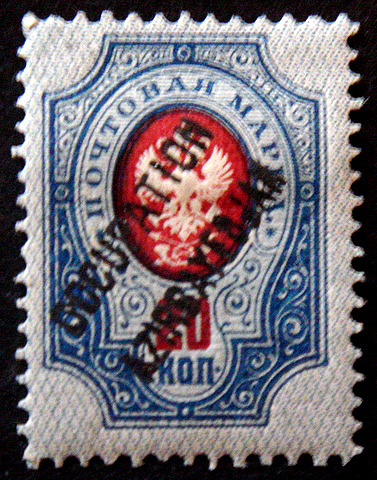 Stamp of Russian Empire, with a fantastic speculative overprint "Occupation Azirbayedjan", 1918